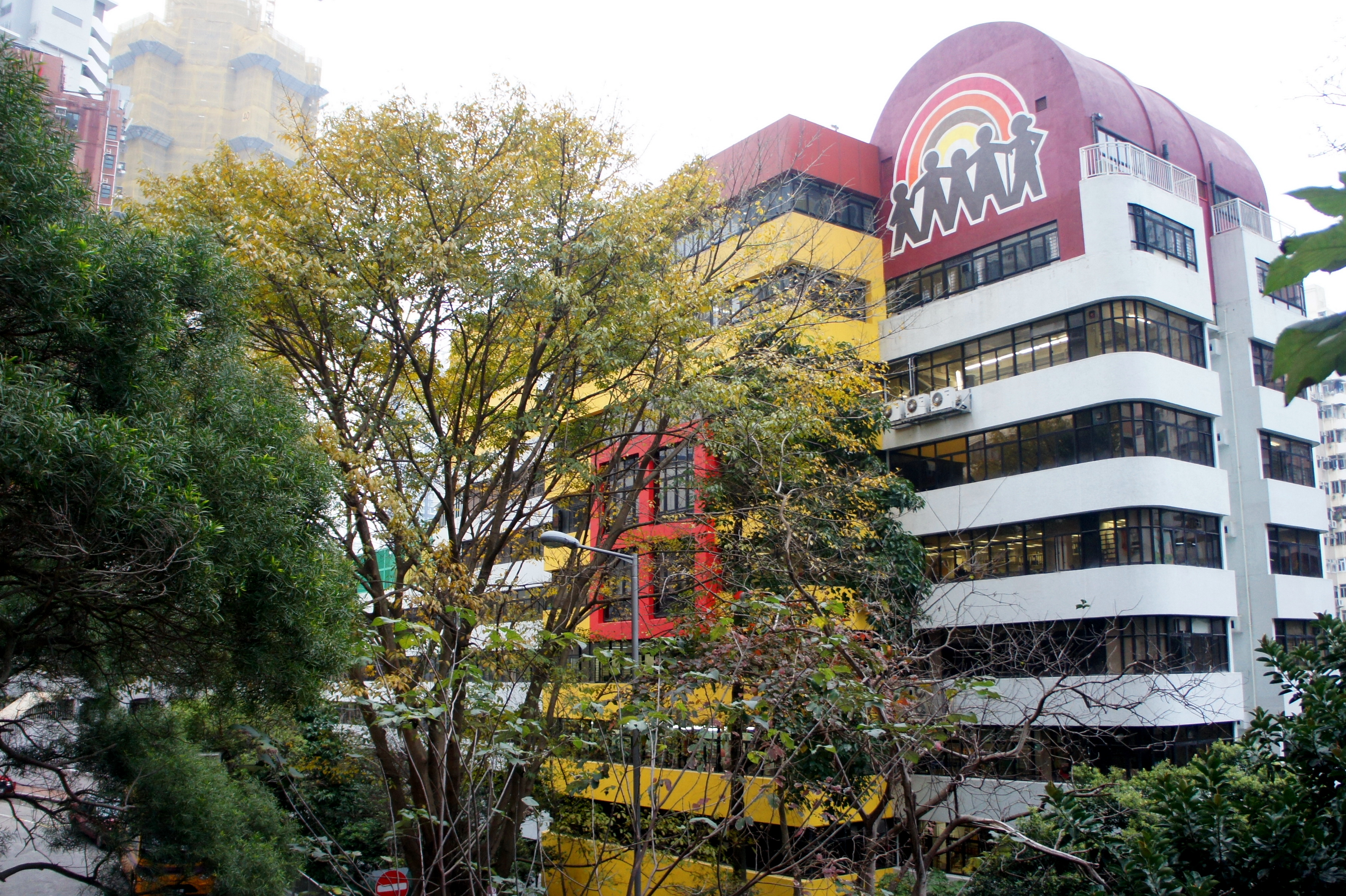 St. James' Settlement Community Centre, Wan Chai, Hong Kong.